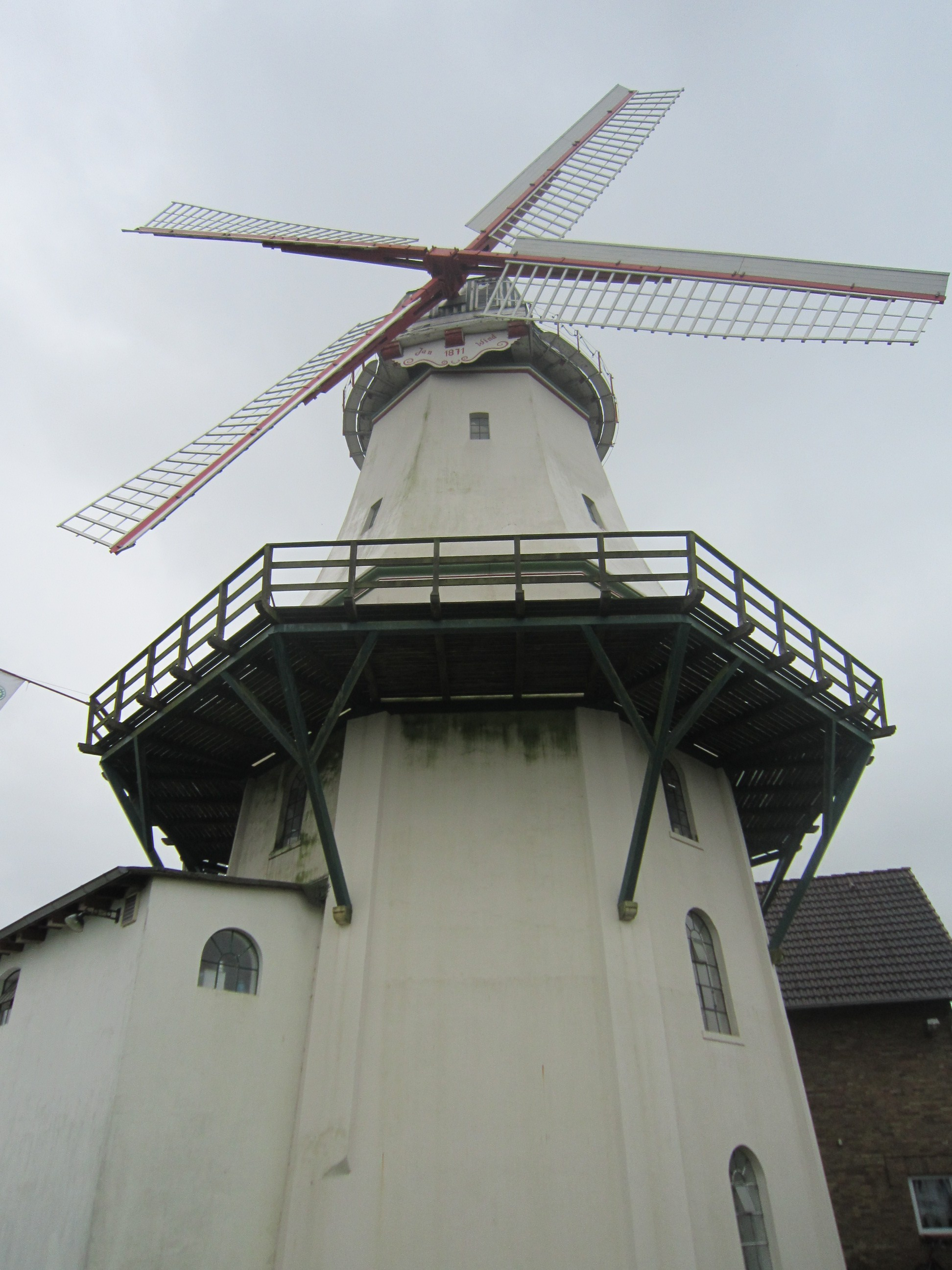 Windmill "Jan Wind" in Etelsen (Landkreis Verden)